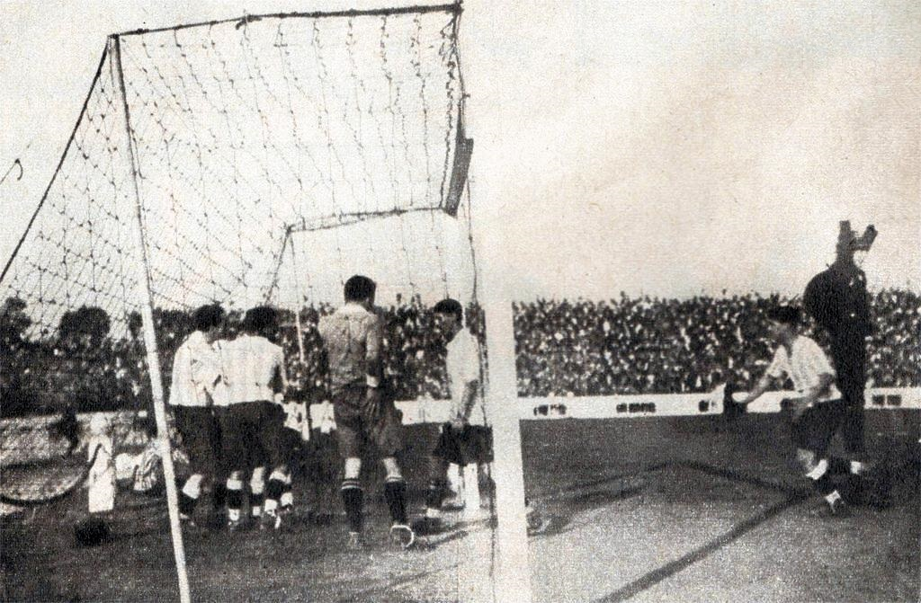 The Argentina national football team celebrating the second goal against the Uruguayan side. Uruguay had won the gold medal at the Summer Olympics short time befor this match, that Argentina won by 2-1.